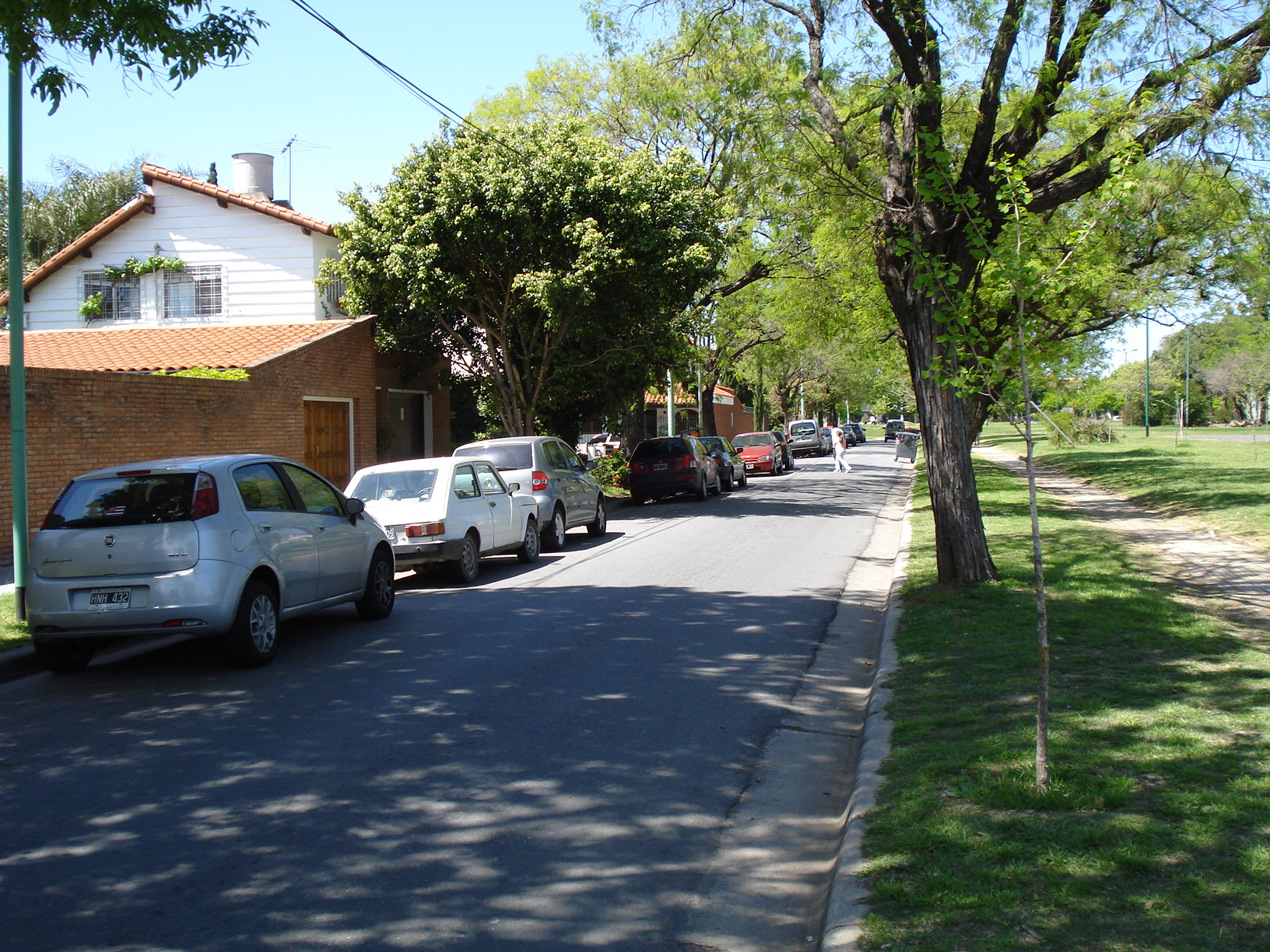 Valdenegro street in Saavedra, Buenos Aires, Argentina.